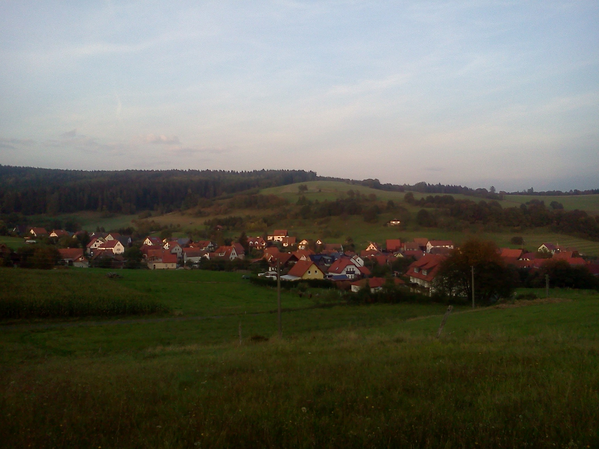 Gethles